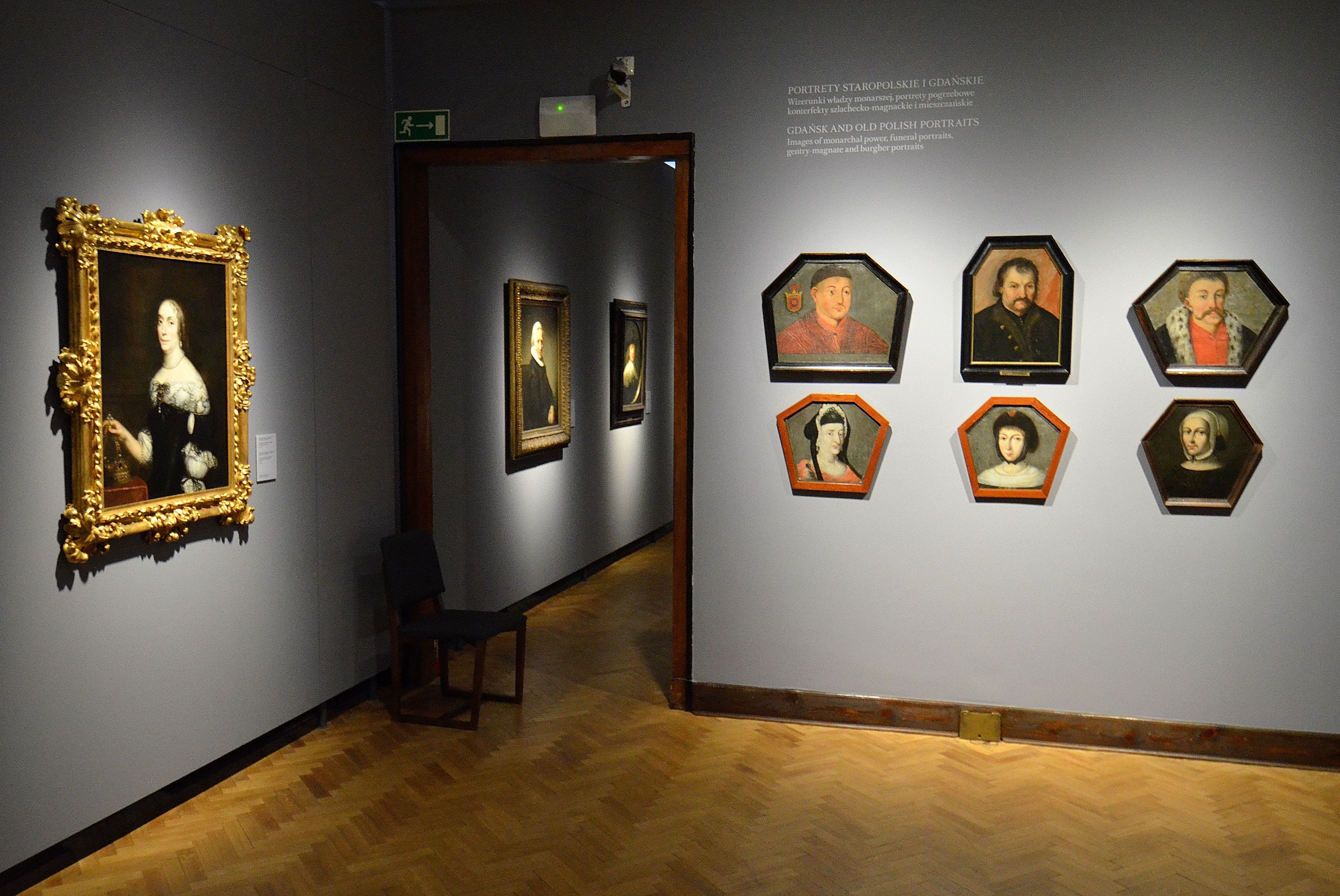 Coffin portraits at the Gallery of Old Polish and European Portraiture in the National Museum in Warsaw.